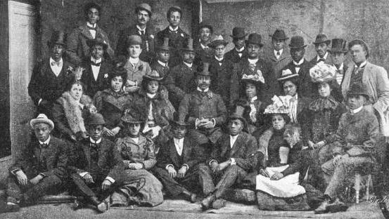 Orpheus McAdoo’s Georgia Minstrels and Alabama Cakewalkers, in Australia, January 1900. Source: State Library of NSW.